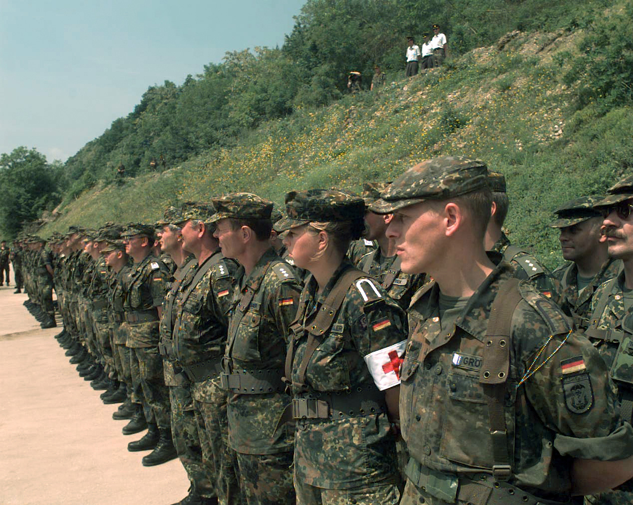 Scope and content: The Donji Bratinia Bridge, just north of the city of Gorazde, is re-opened after having been shut down after its' destruction by North Atlantic Treaty Organization air strikes. The new bridge is a British Mabey Johnson bridge assembled by a Battalion of German Engineers belonging and supporting the Implementation Force (IFOR) in Bosnia as part of Operation JOINT ENDEAVOR. Lieutenant General Michael Walker, Commander of the Allied Command Europe Rapid Reaction Corps, with the assistance of a Bosnian interpreter and a German interpreter, speaks to the German Army Engineers and the local Bosnian population gathered there to witness the official opening ceremony. Beginning in December, 1995, US and allied nations deployed peacekeeping forces to Bosnia in support of JOINT ENDEAVOR. The provision of a secure environment is at the heart of the reconstruction effort in Bosnia.